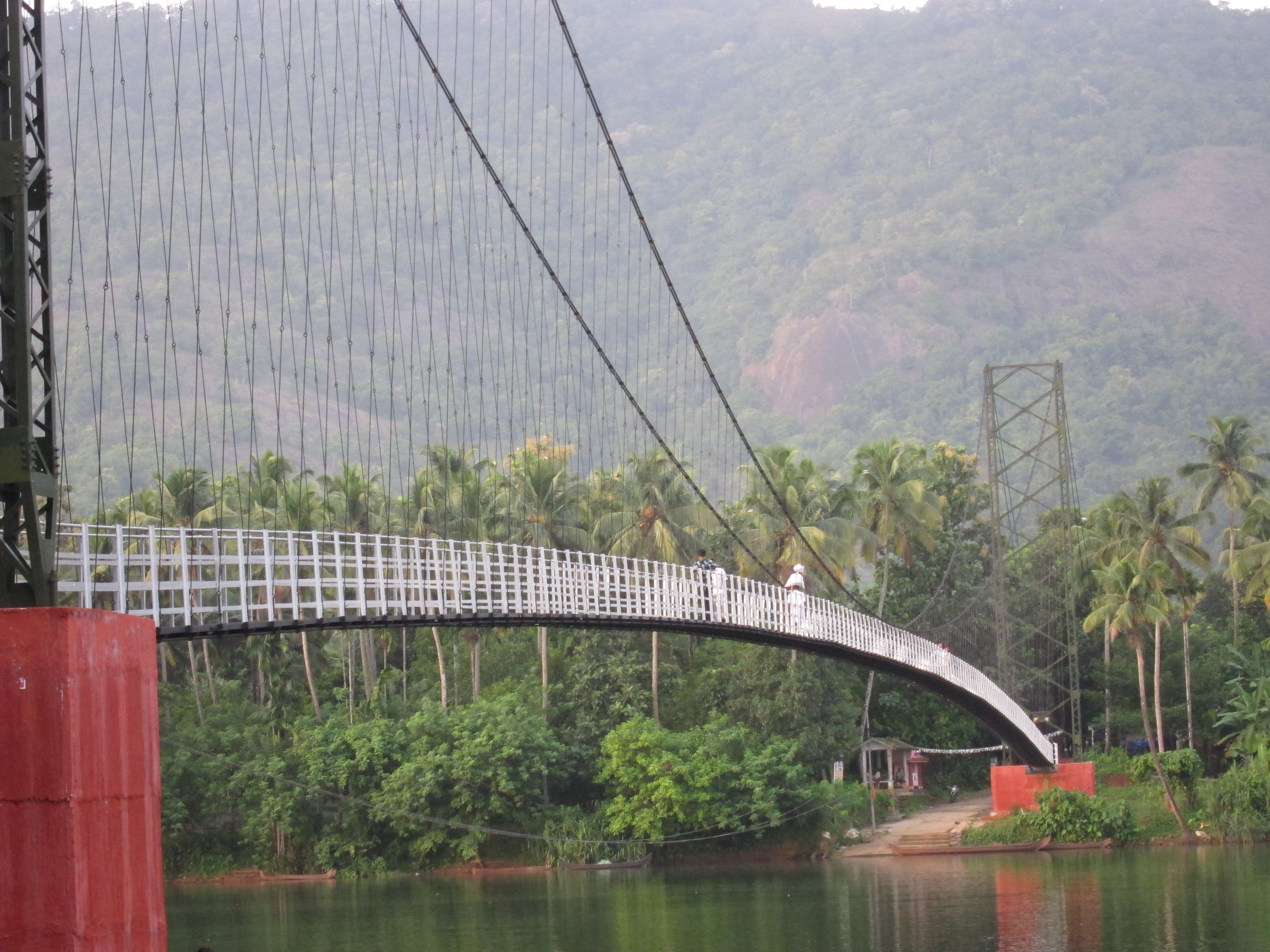 Inchathotty Hanging Bridge, Inchathotty, Keerampara, Ernakulam Over Periyar river